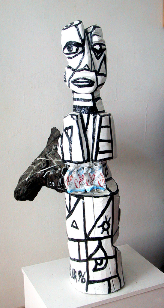 Barbara Piwarska, Anioł z czarnym skrzydłem. Wood sculpture, 96 cm, 1996.